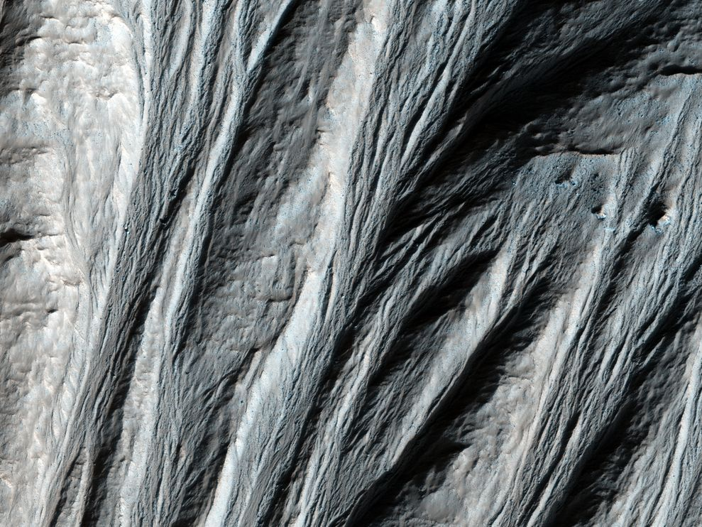 Gullies rake across the raw landscape of Mars in an image released this week by the Mars Reconnaissance Orbiter's HiRISE camera. Some four billion years ago, a comet or asteroid splashed onto the southern highlands of Mars, creating the Argyre Impact Basin just south of the gullies. After the impact, water or lava flow into the basin may have carved these gullies, which are more than 3.6 miles (6 kilometers) long.